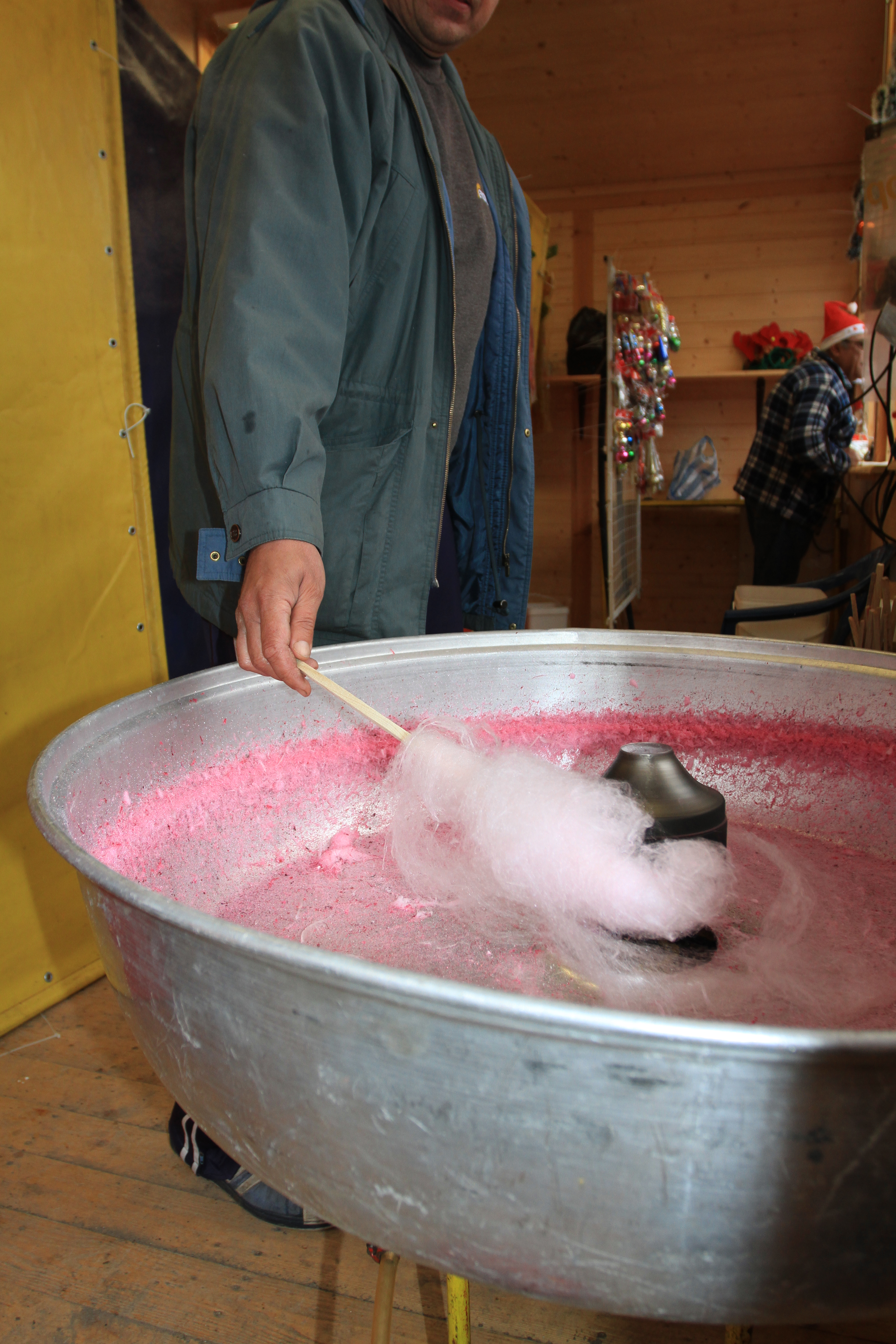 The master makes cotton candy This photo has been taken in the country: Bulgaria